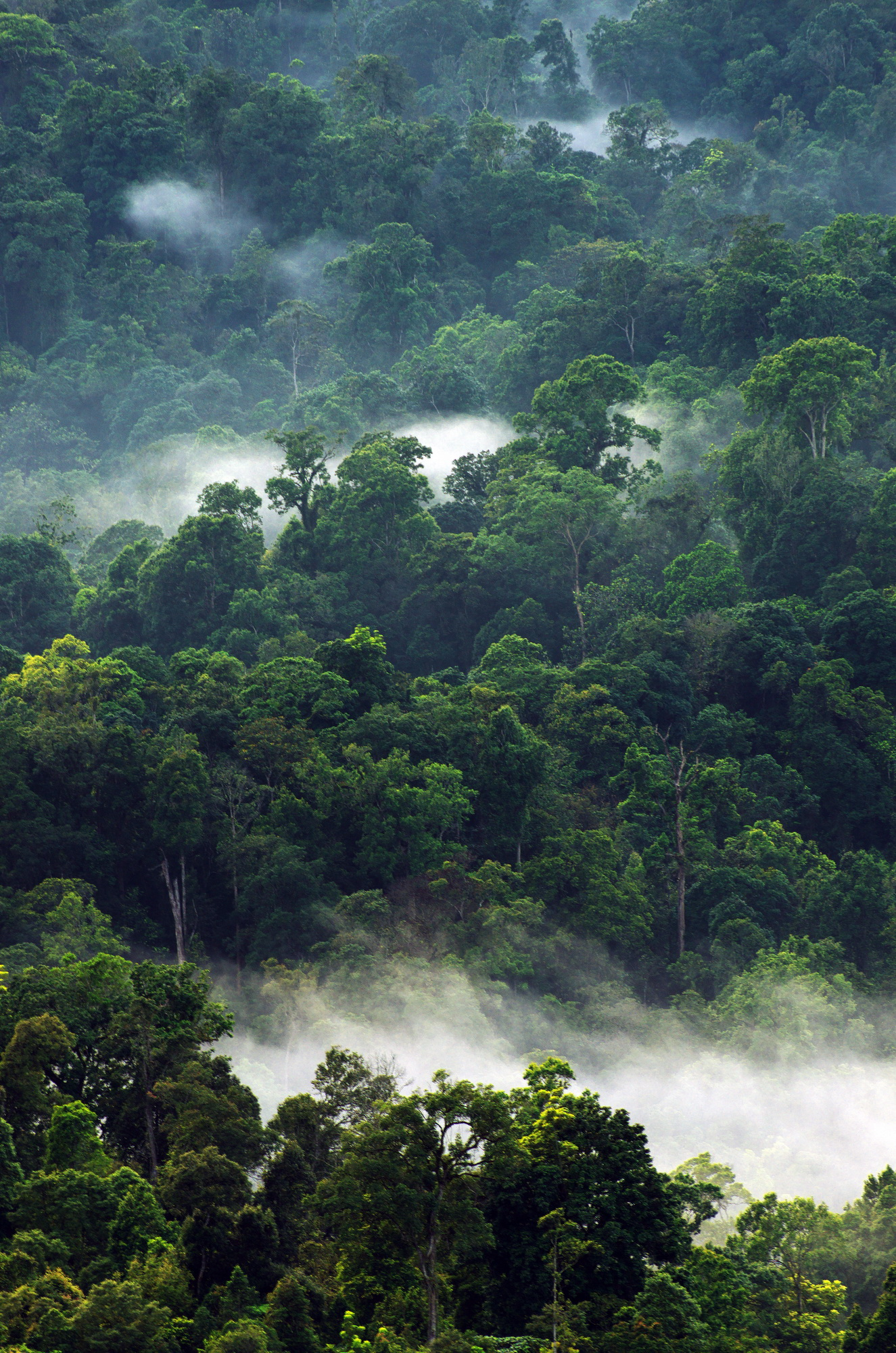 Disebut hutan Halimun karena setiap saat nya kawasan hutan selalu tertutupi oleh kabut sumber poto : Ade Zaenal Mutaqin, 0251-969-2000 / 0821-1005-7000